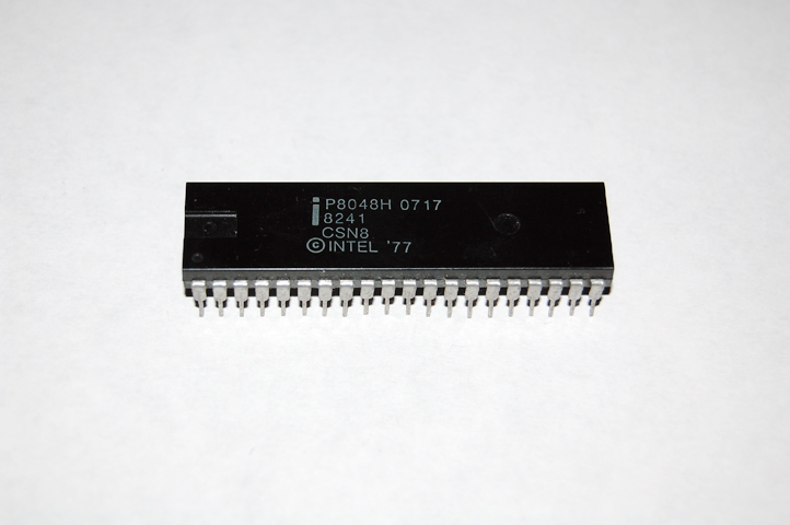 Intel 8048 microcontroller